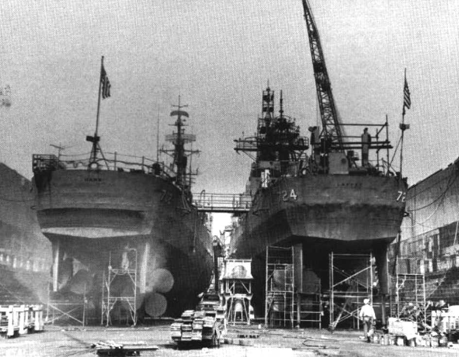 The U.S. Navy destroyers USS Hank (DD-702) and USS Laffey (DD-724) in a drydock, circa 1968.